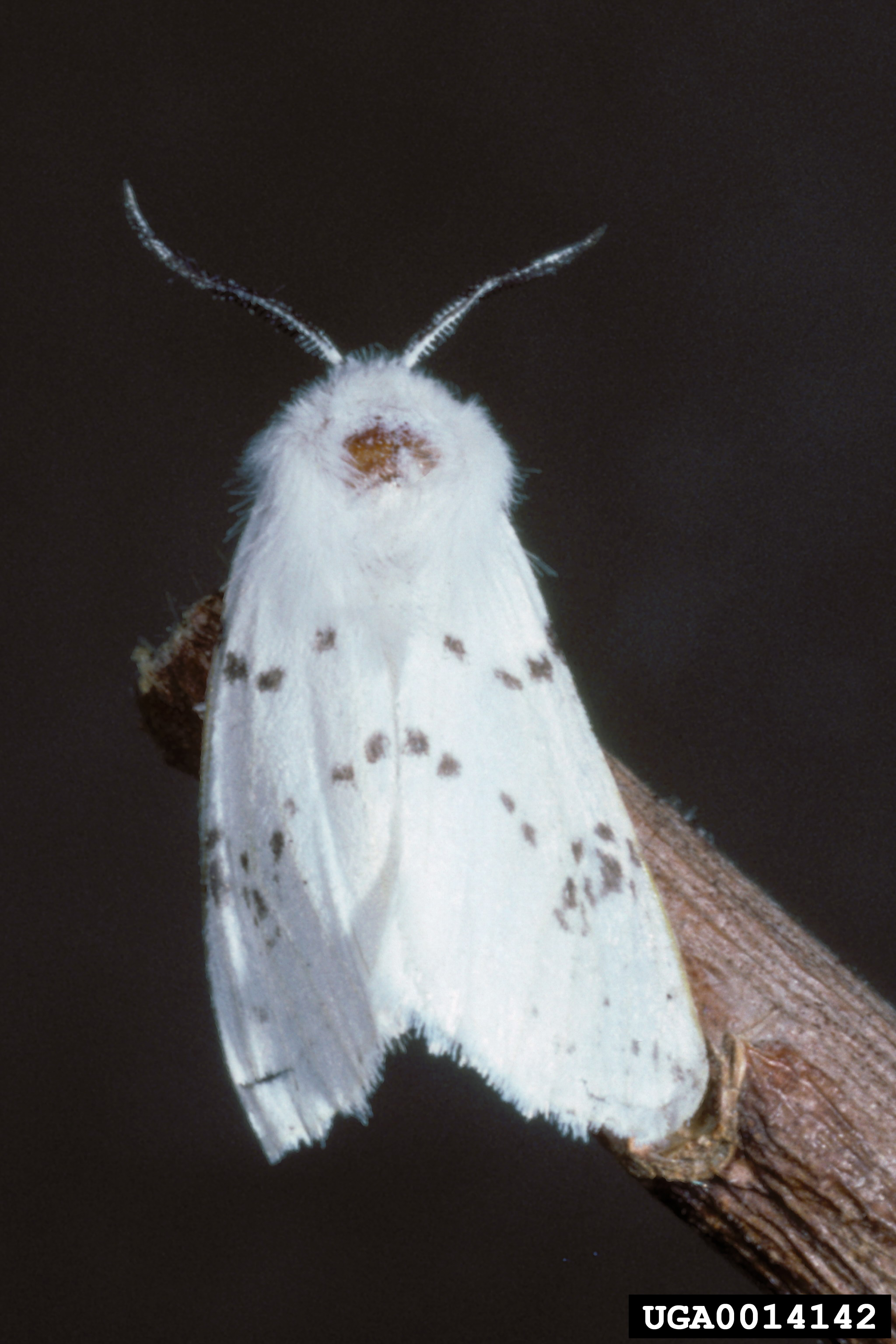 Hyphantria cunea